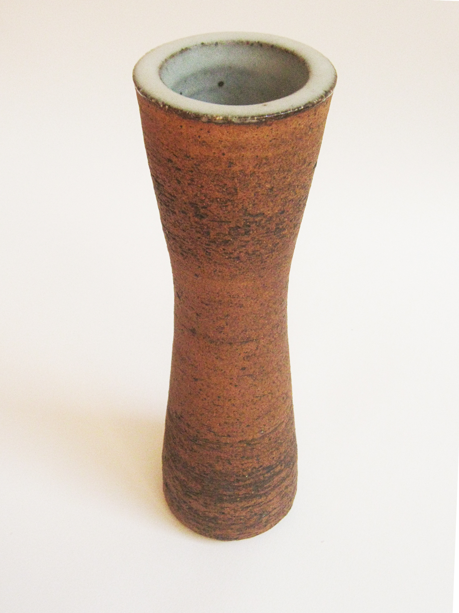 Textured stoneware vase by Ian Sprague 1960; photographed in St Kilda Victoria